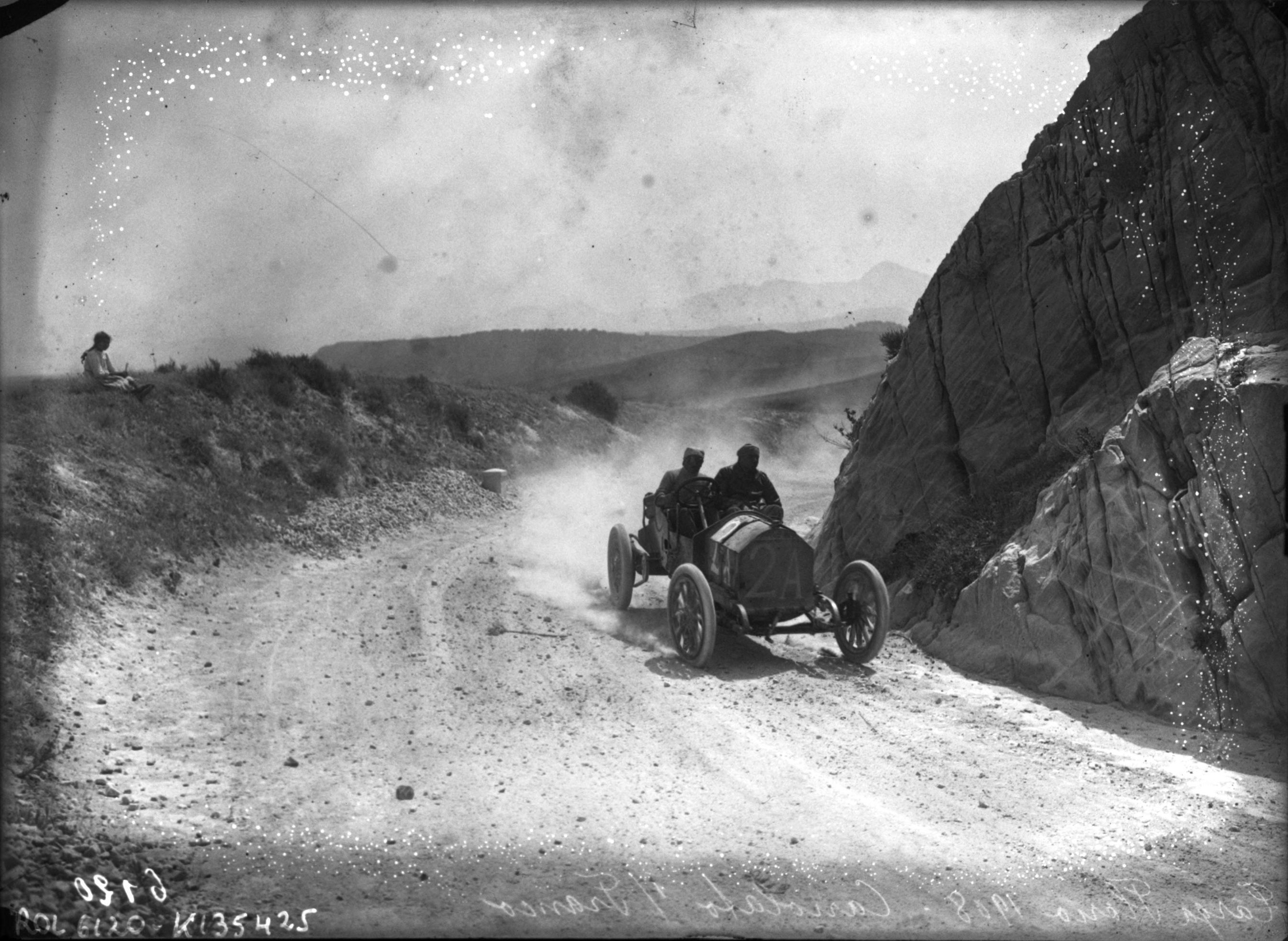 Tullio Cariolato in his Franco at the 1908 Targa Florio.